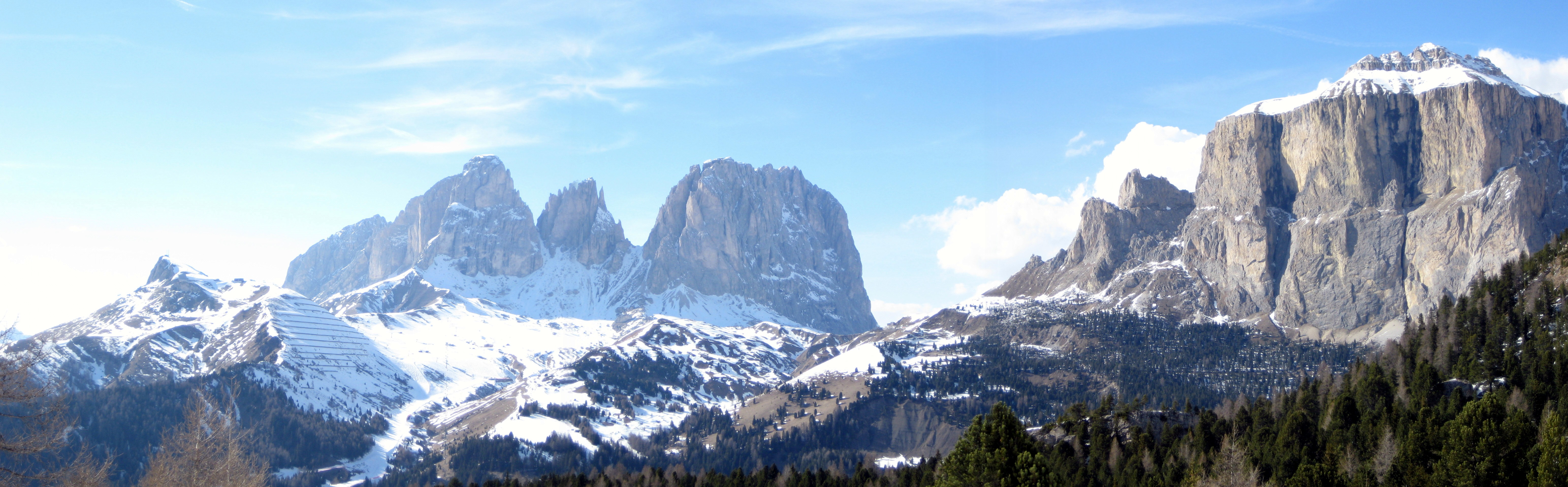 Sellajoch, South Tyrol and Trentino (seen from Pordoi Pass), Langkofel on the left, Piz Ciavazes on the right